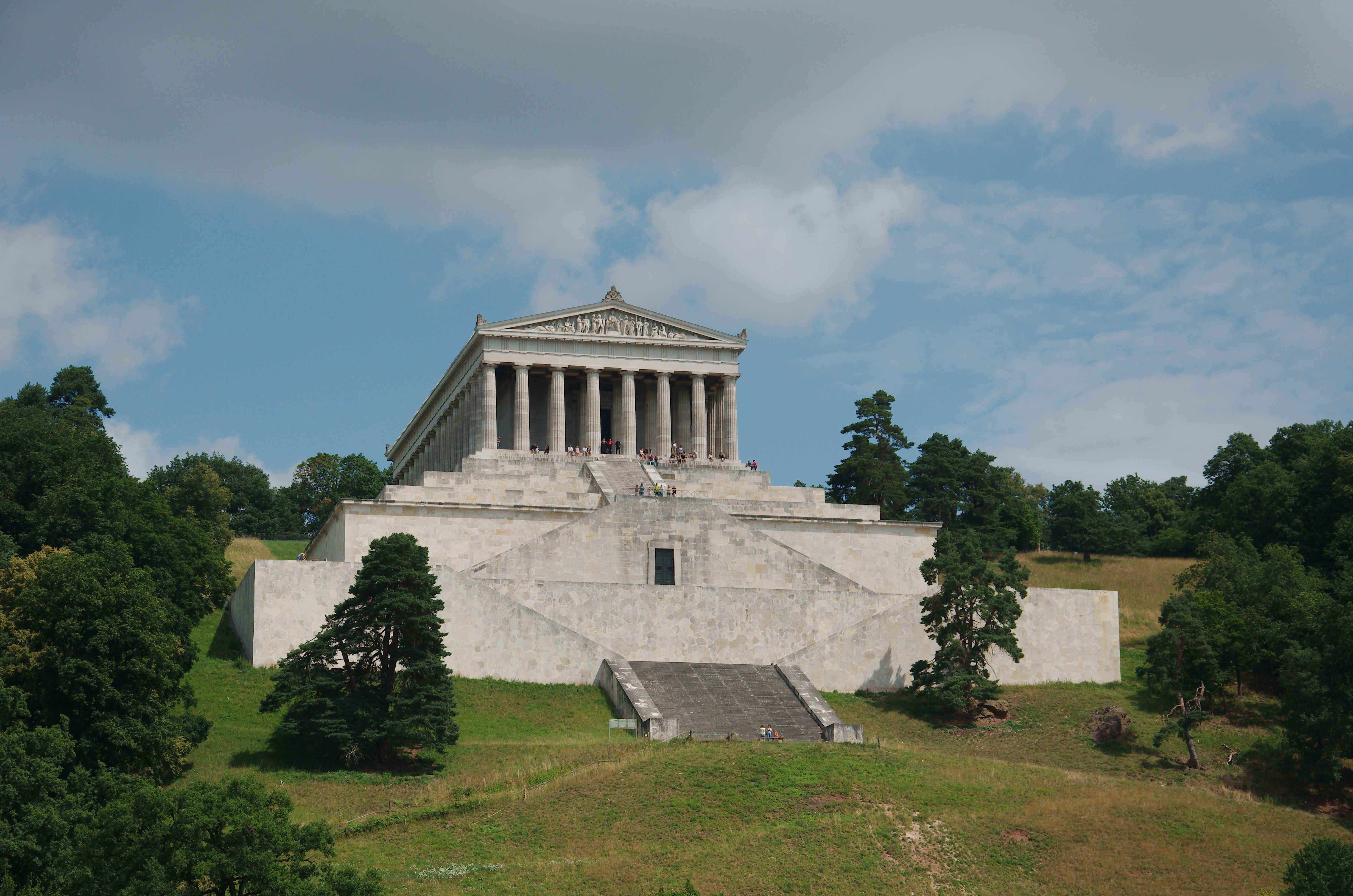 2016 - Regensburg